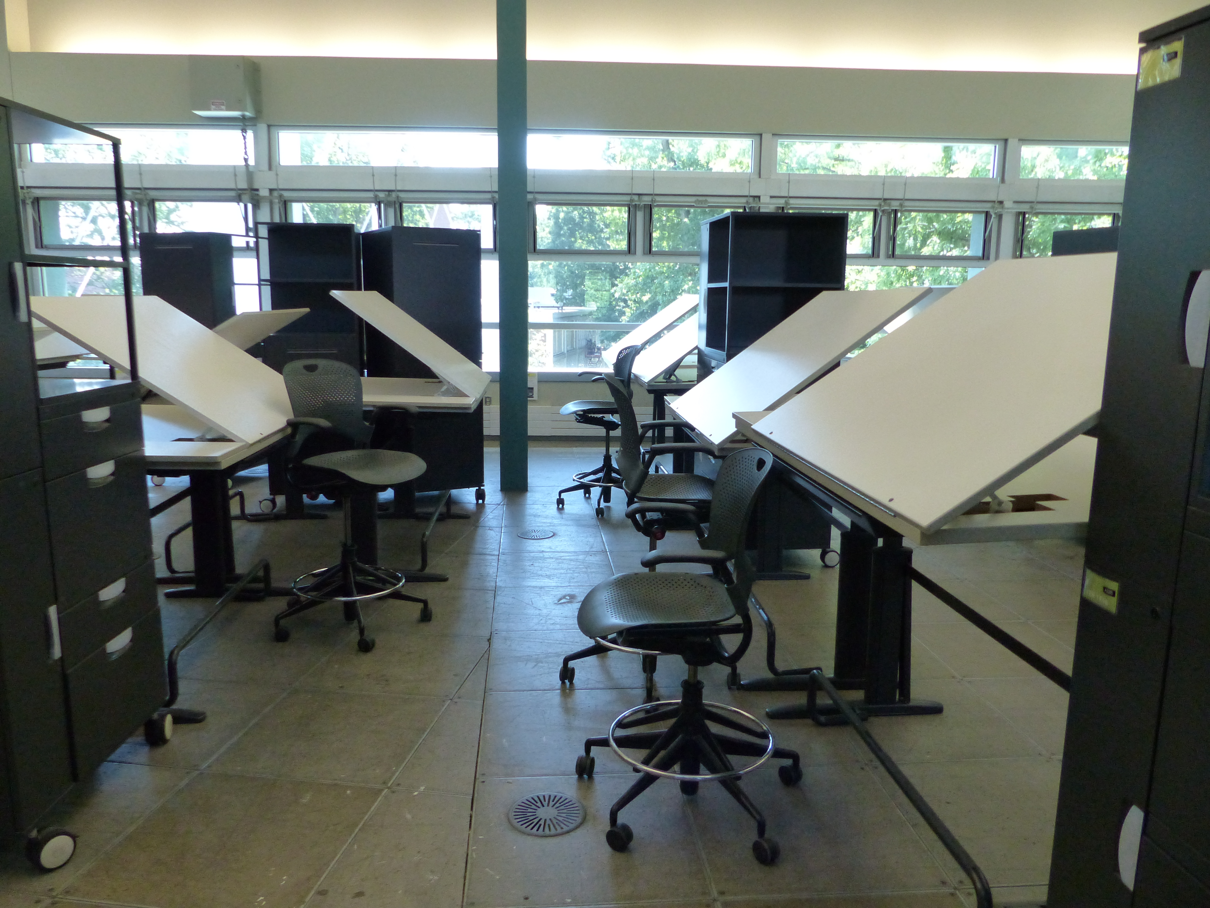 architecture